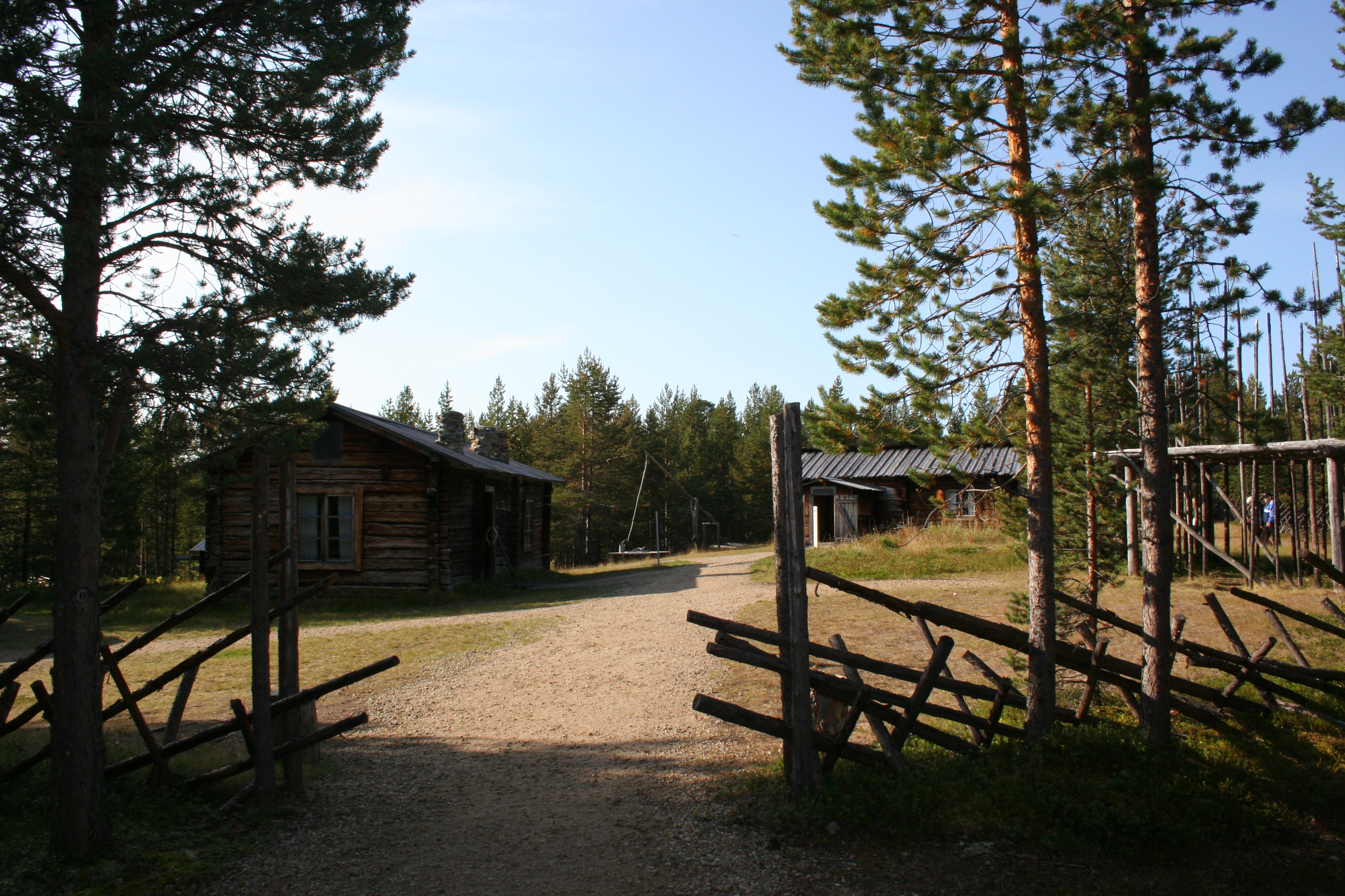 Open-air museum Siida in Inari, Finland